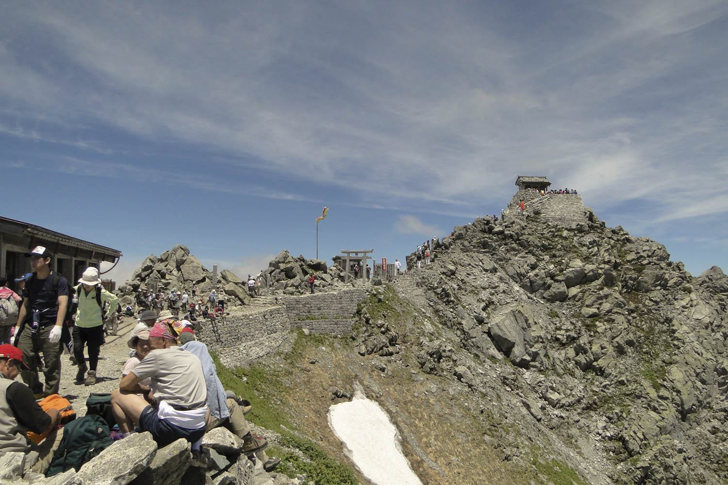 Oyama Peak